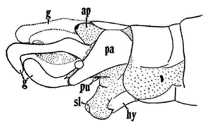 Lateral view of terminal genitalia of Corydalus cornutus (Megaloptera, Corydalidae). Abbreviations: ap= Anal tubercle, anopappilla, or proctiger; g= gonopods; hy= Subgenital valve, or hypandrium; pa = Parapodial plates, or paraprocts; pu= Penis hooks, or penunci; sl= Sublaminae